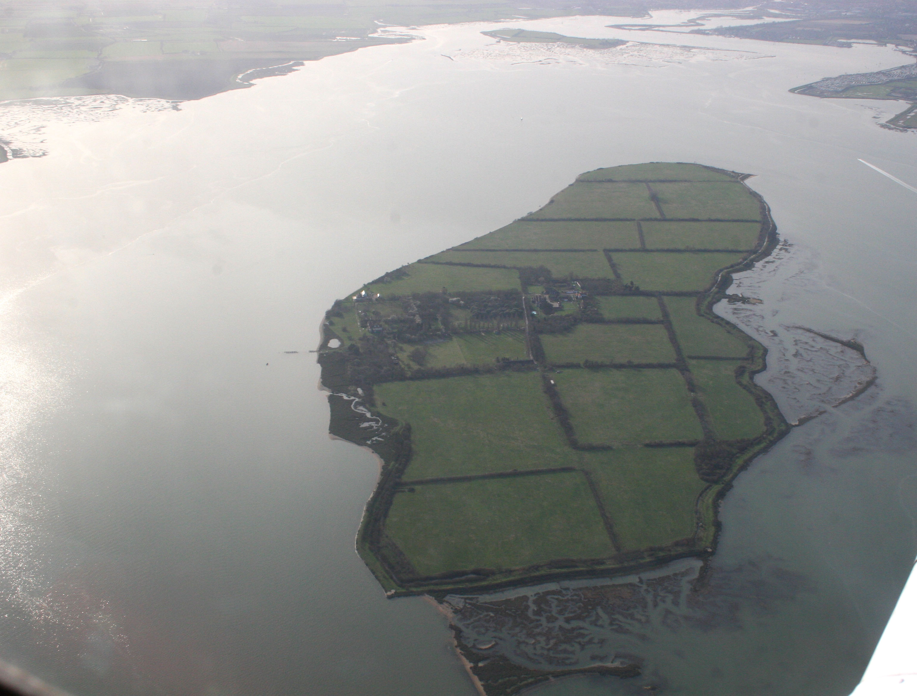 aerial photo of Osea Island, on the River Blackwater, in Essex.